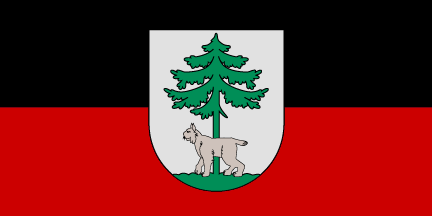 flag of the city of Jēkabpils, Latvia.